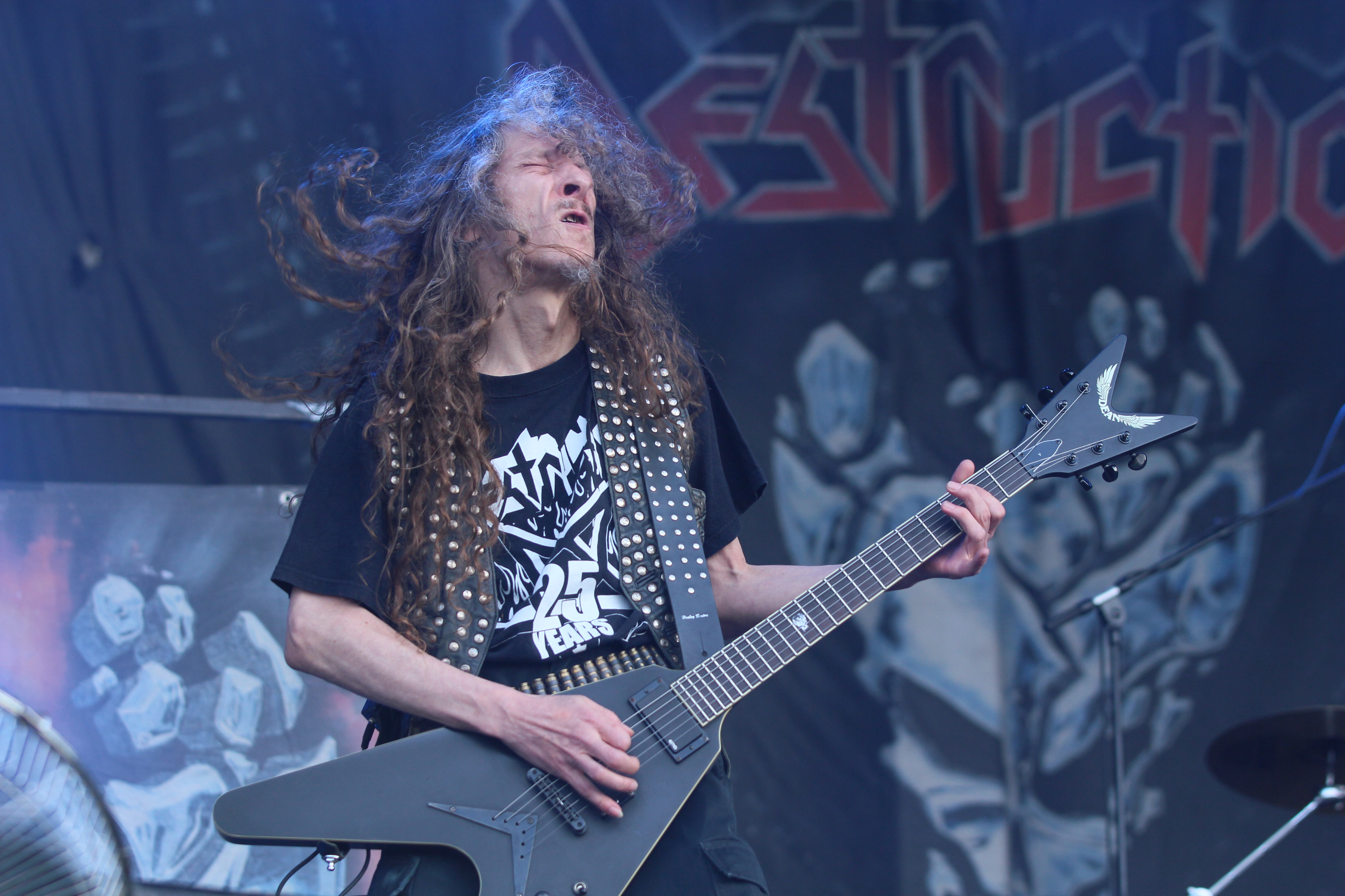 The German thrash metal band Destruction at the Rockharz Open Air 2014 in Ballenstedt/Germany